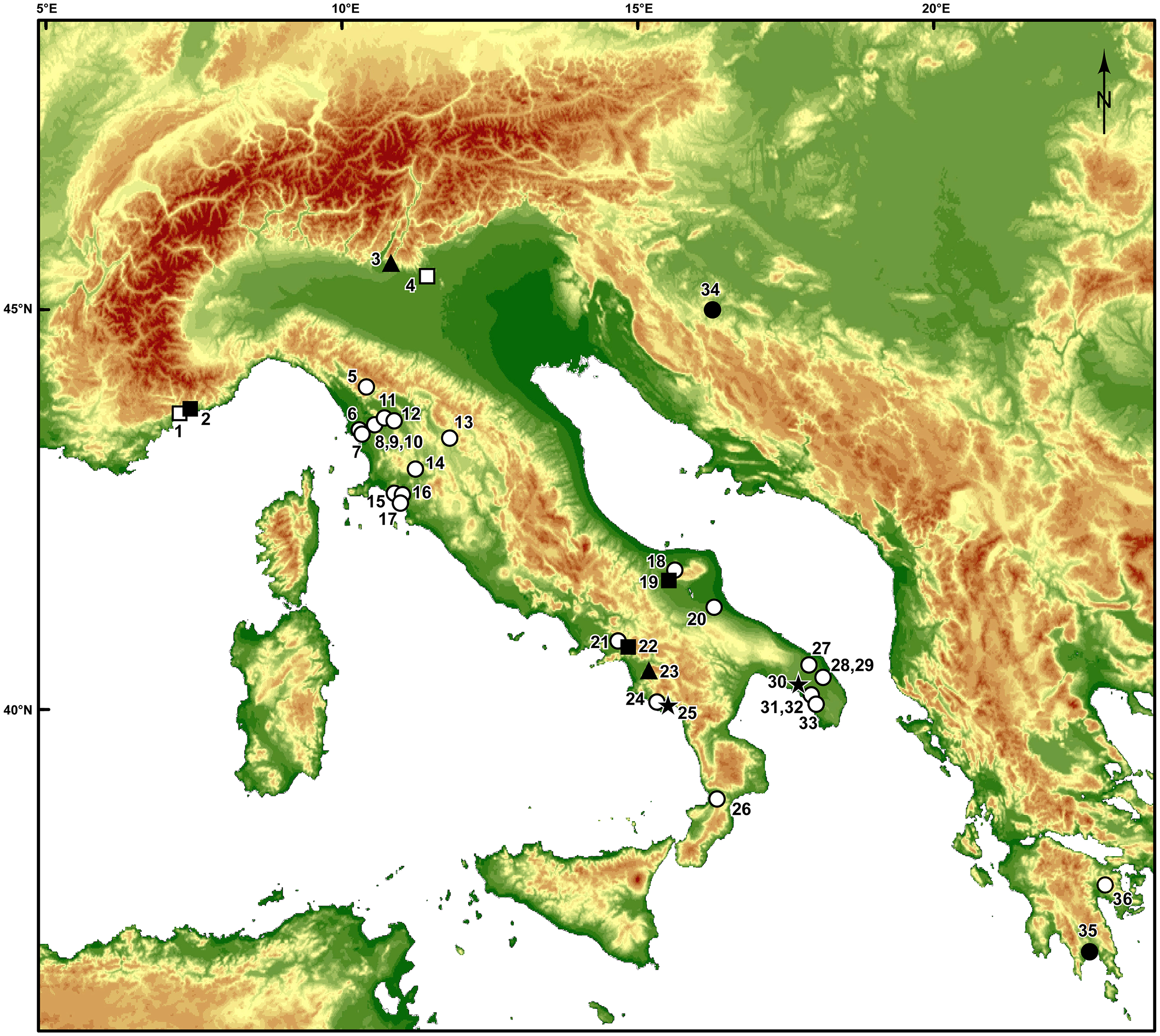 Open circles: Uluzzian sites; Solid circles: Neandertal remains dated to the Uluzzian time range. Squares: Protoaurignacian sites. triangles: sites with Uluzzian and Protoaurignacian levels. Stars: Grotta del Cavallo and Grotta del Poggio. List of indicated sites: 1. Grotte de l’Observatoire; 2. Grimaldi sites (e.g. Mochi); 3. Fumane; 4. Paina; 5. Porcari; 6. Salviano; 7. Maroccone; 8. Val di Cava; 9. Podere Colline; 10. Casa ai Pini; 11. San Romano; 12. San Leonardo; 13. Indicatore; 14. Santa Lucia I; 15. Val Berretta; 16. Calvello; 17. Fabbrica; 18. Foresta Umbra; 19. Paglicci; 20. Falce del Viaggio; 21. Tornola; 22. Serino; 23. Castelcivita; 24. Cala; 25. Poggio; 26. San Pietro; 27. Torre Testa; 28. Cosma; 29. Uluzzo; 30. Cavallo; 31. Mario Bernardini; 32. Serra Cicora; 33. Veneri de Parabita; 34. Vindija; 35. Lakonis I; 36. Klisoura 1.